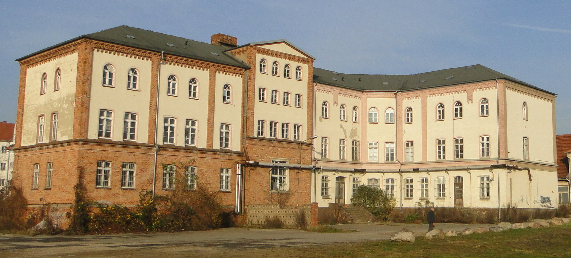 Former police station at the eastern end of the street Amtstraße in Schwerin, Mecklenburg-Vorpommern, Germany. Rear of the monument Amtstrasse 21-23.